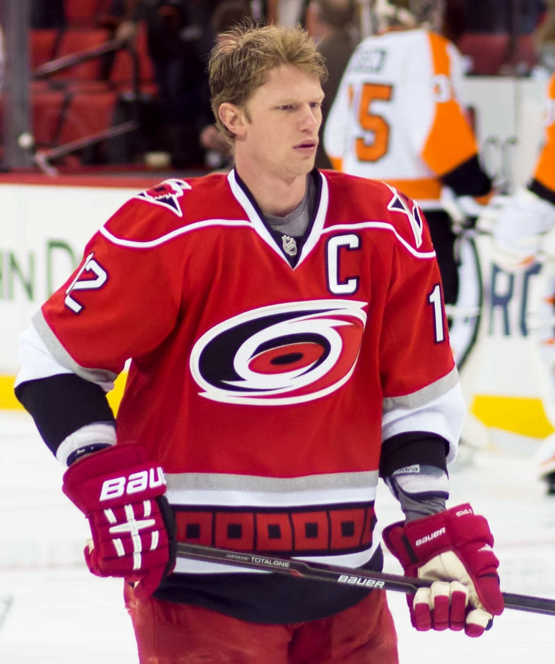 Eric Staal, Canadian ice hockey player